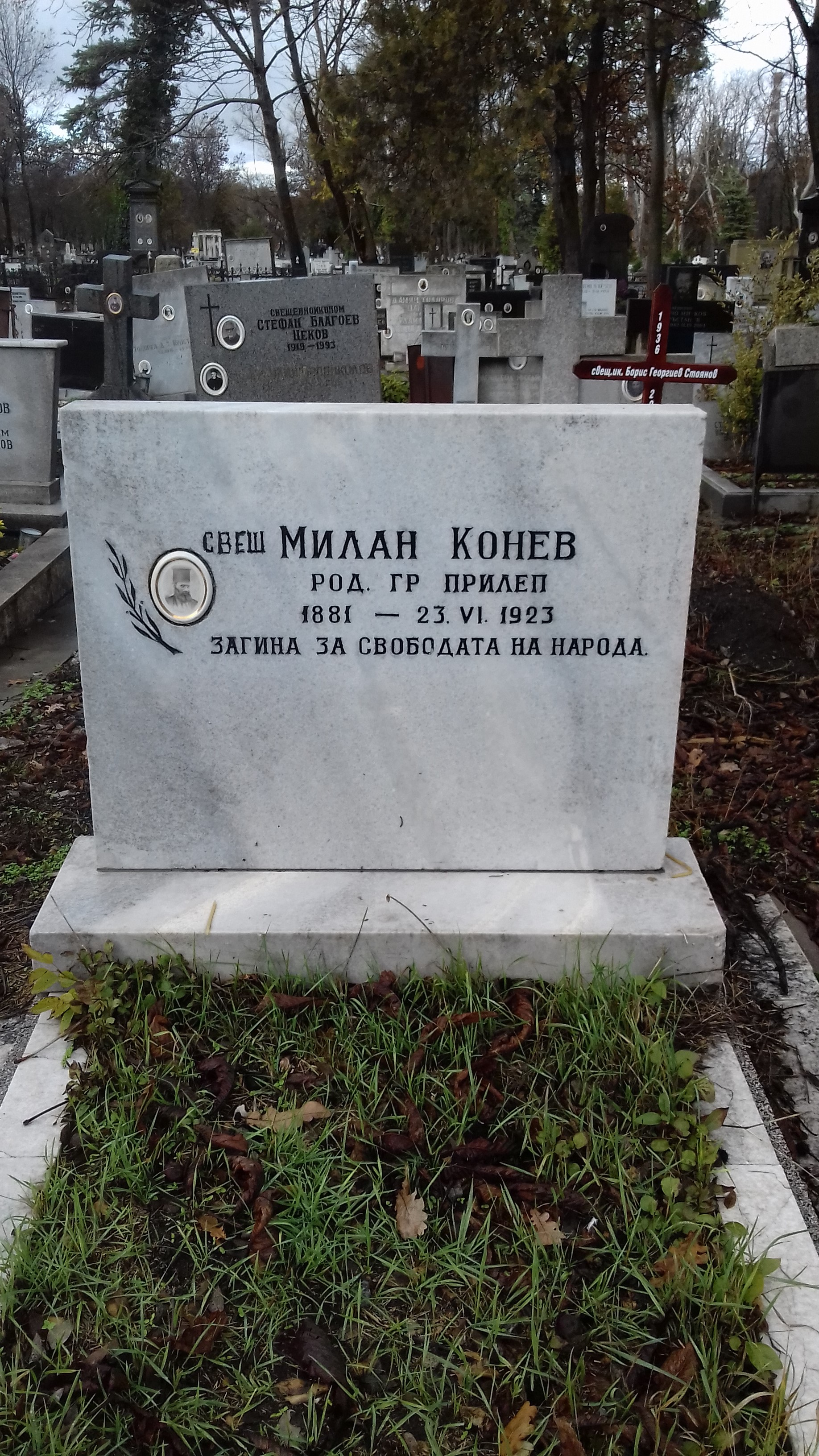 Milan Konev's Grave